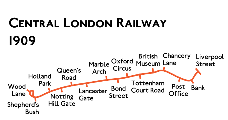 Geographic Map of the Central London Railway as planned in 1909.